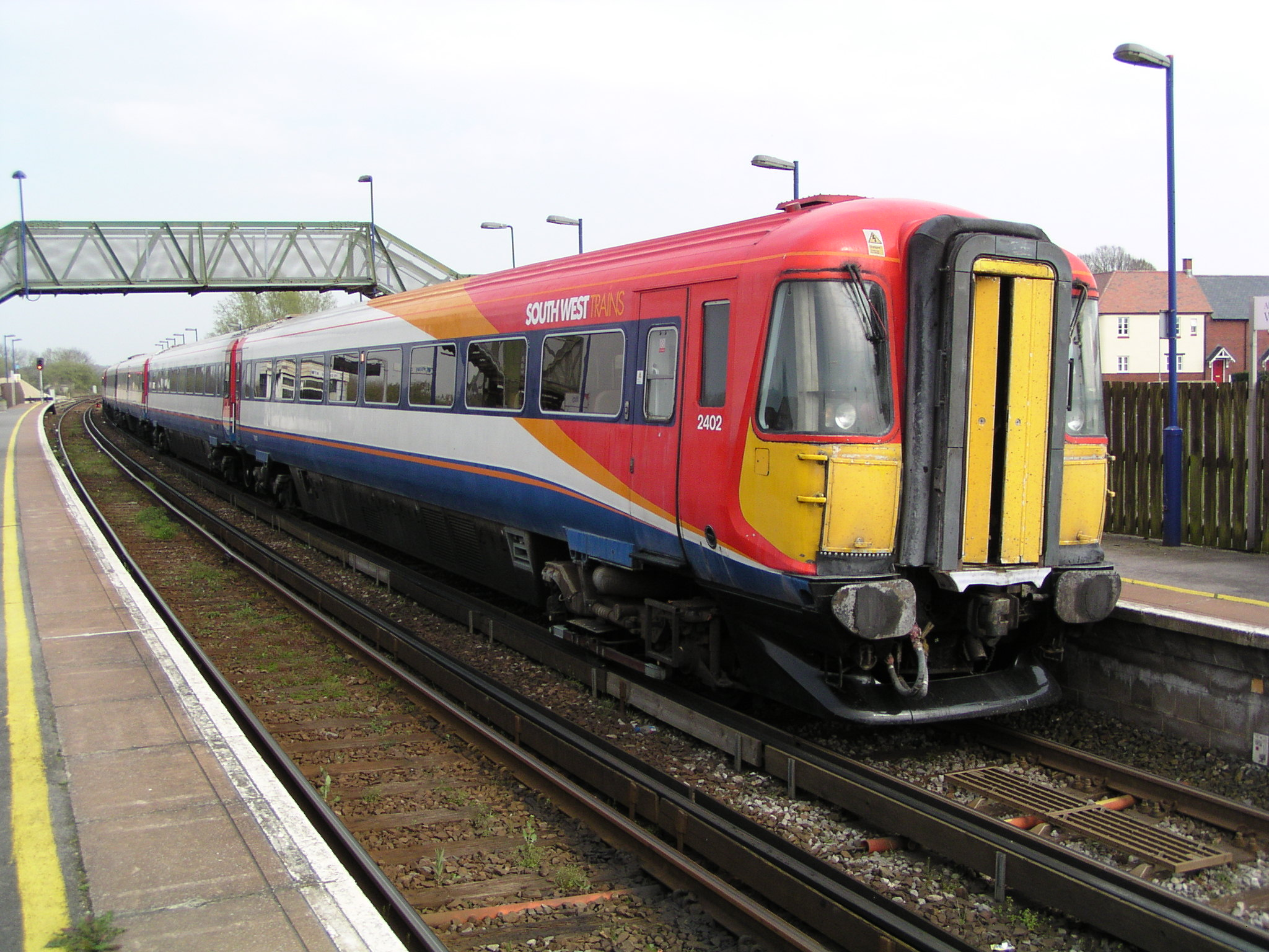 British Rail Class 442 No. 2402 Hampshire at Wool, Dorset on April 17, 2004 with a service from London Waterloo to Weymouth.